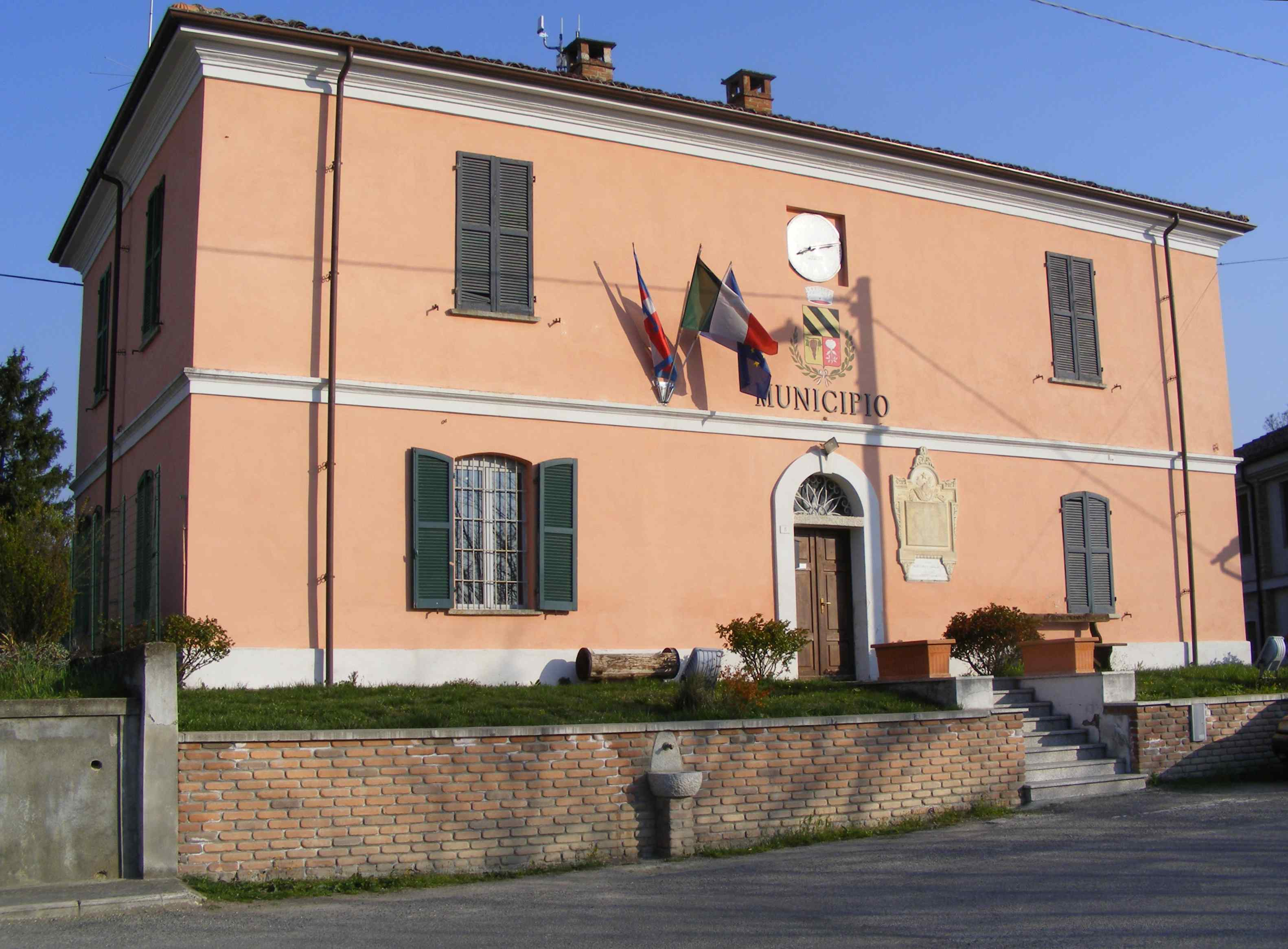 Berzano di Tortona (AL, Italy): town hall